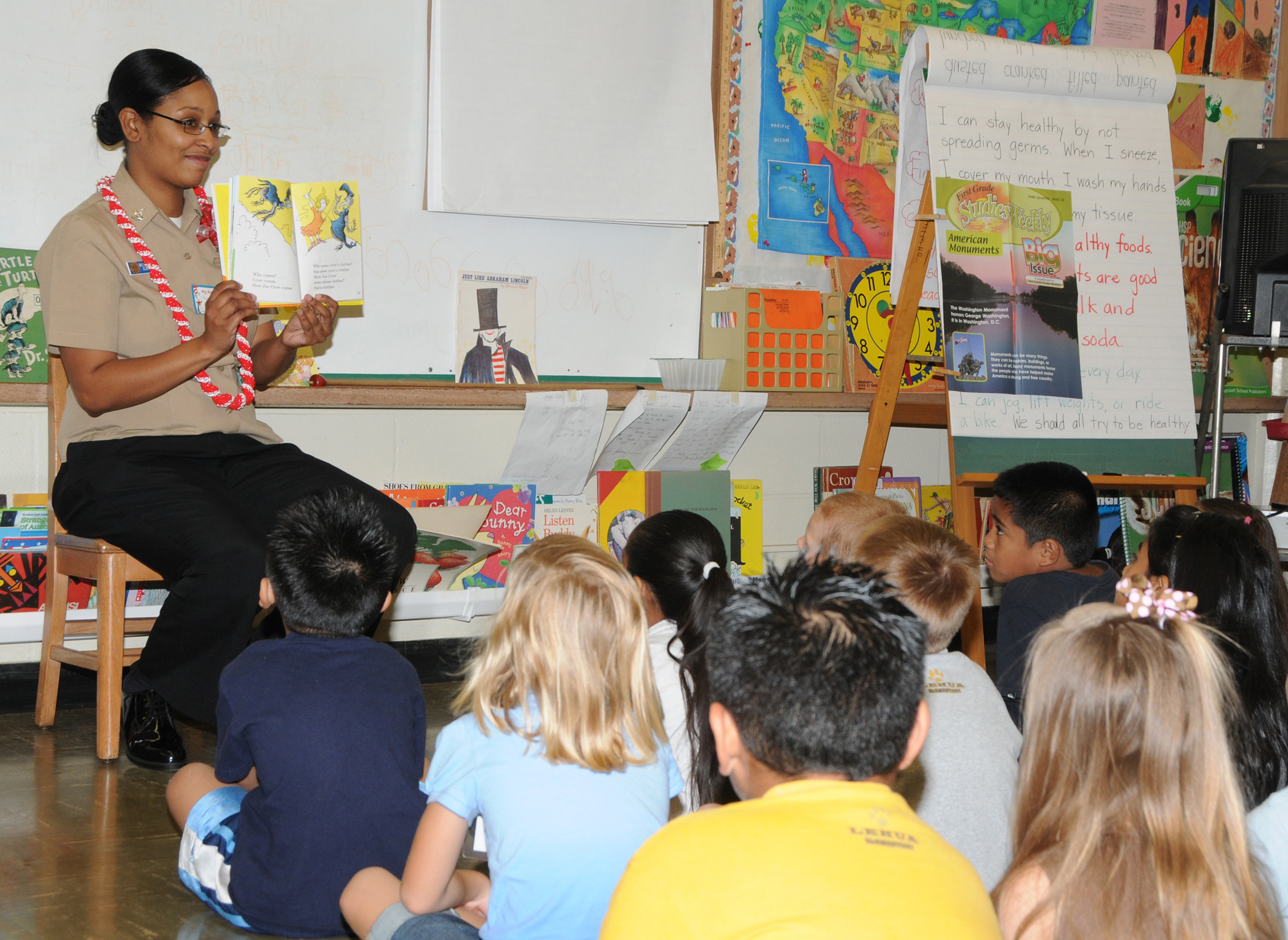 PEARL CITY, Hawaii (March 3, 2010) Boatswains Mate 2nd Class Rasheema Newsome, assigned to Commander, Navy Region Hawaii, reads a Dr. Seuss book to students at Lehua Elementary School for Read Across America. Read Across America celebrate Dr. Seuss's birthday, the event helps getting kids excited about reading. (U.S. Navy photo by Mass Communication Specialist 2nd Class Robert Stirrup/Released)